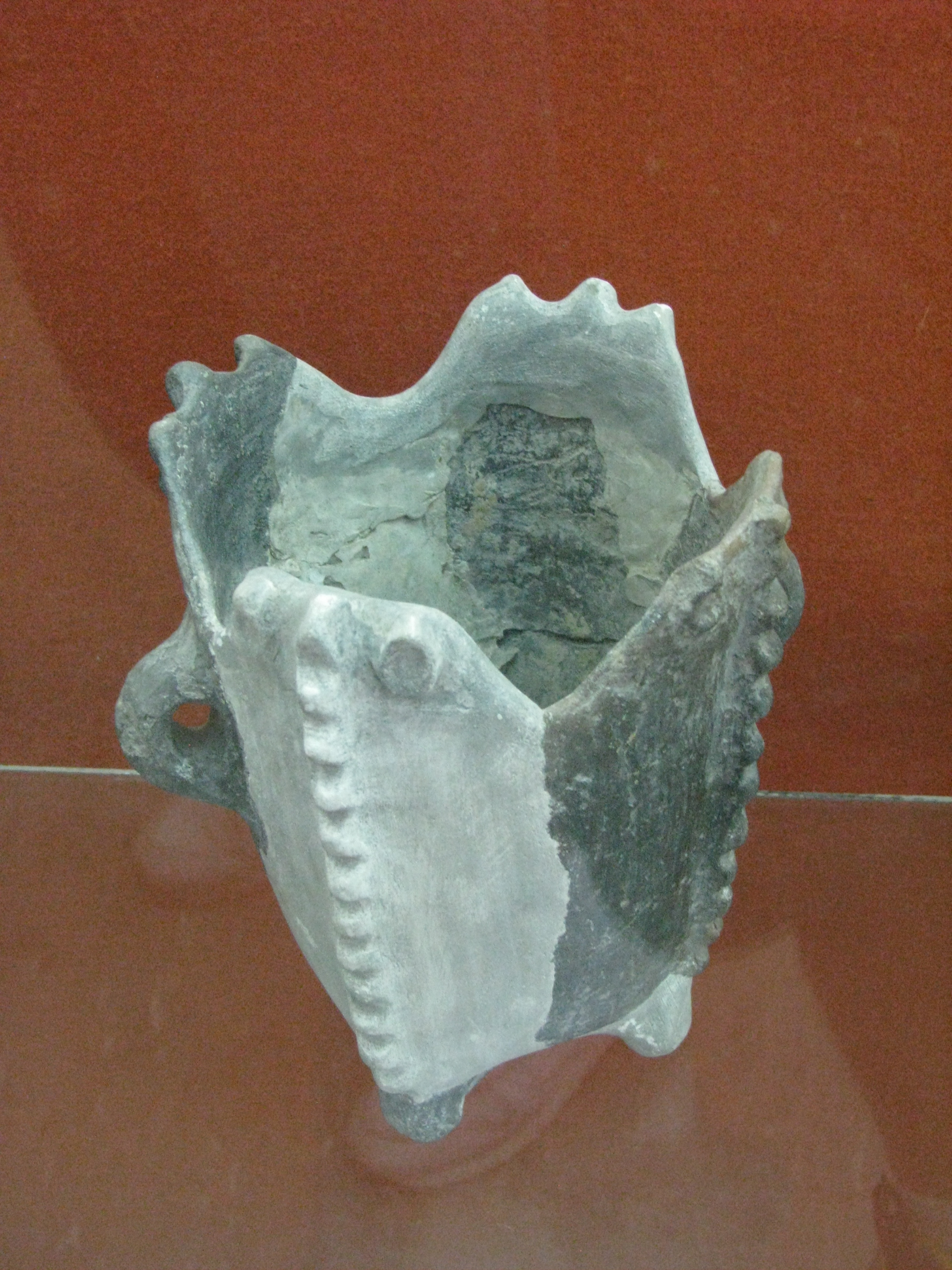 Fragment of a Herculane-Cheile Turzii culture vessel, dated 3800-3500 BC (Middle Eneolithic Period), found at Cheile Turzii. It has a narrow mouth and almost straight sides, a flat neck hook, and is decorated in bands.